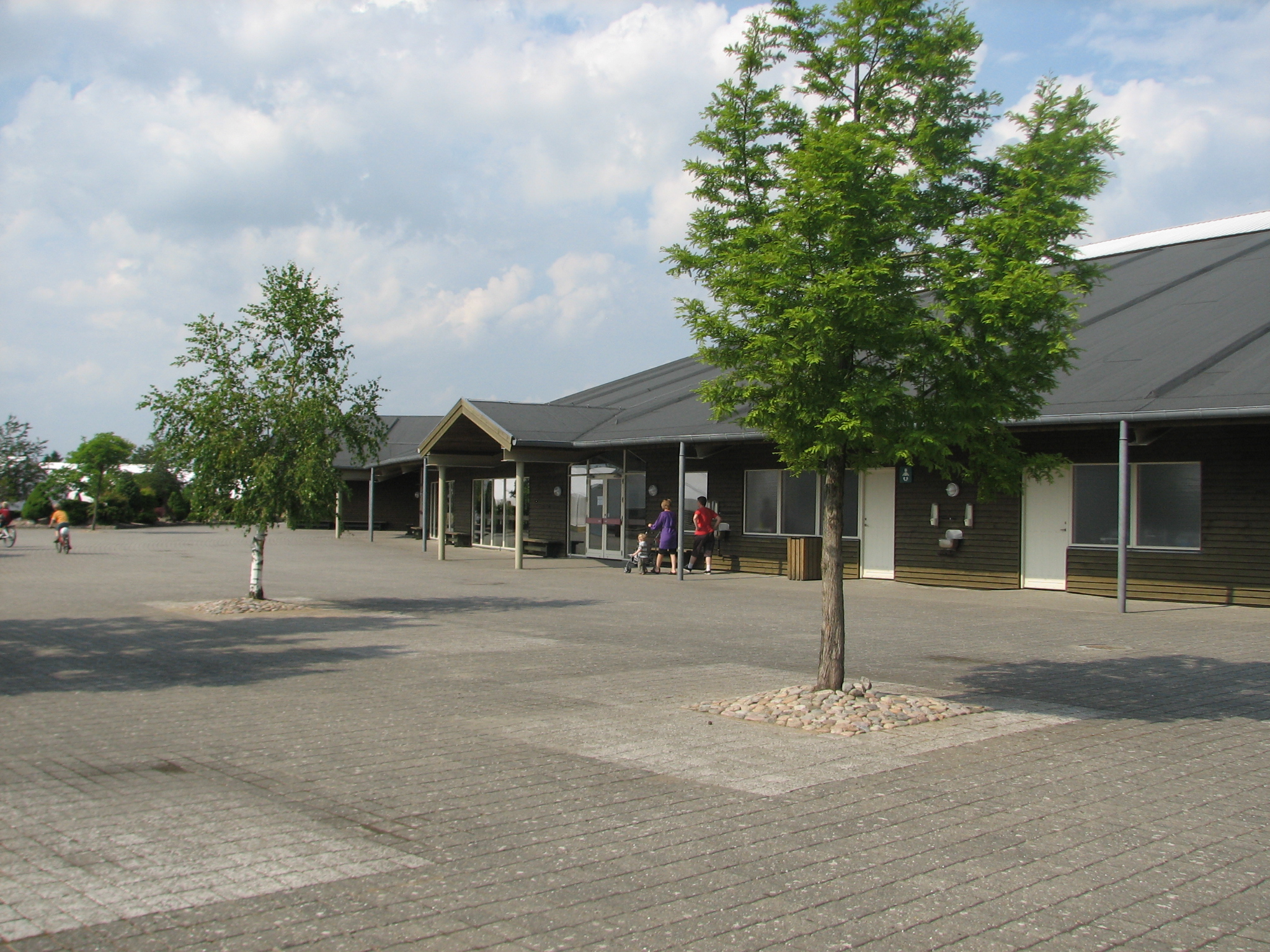 Entrence of "Jehovah's Witnesses Convention Center" in Silkeborg, Denmark